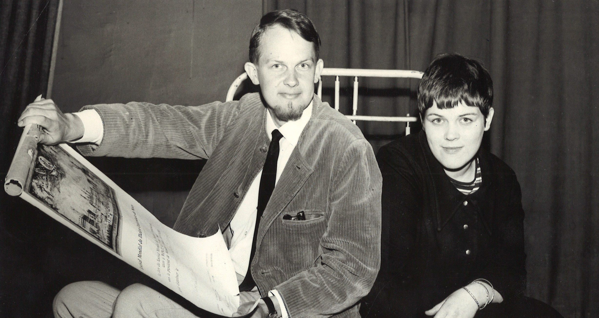 Photograph of the Finnish stage directors and writers Kalle Holmberg and Kaisa Korhonen after the Ylioppilasteatteri visited Nancy student theare festival.